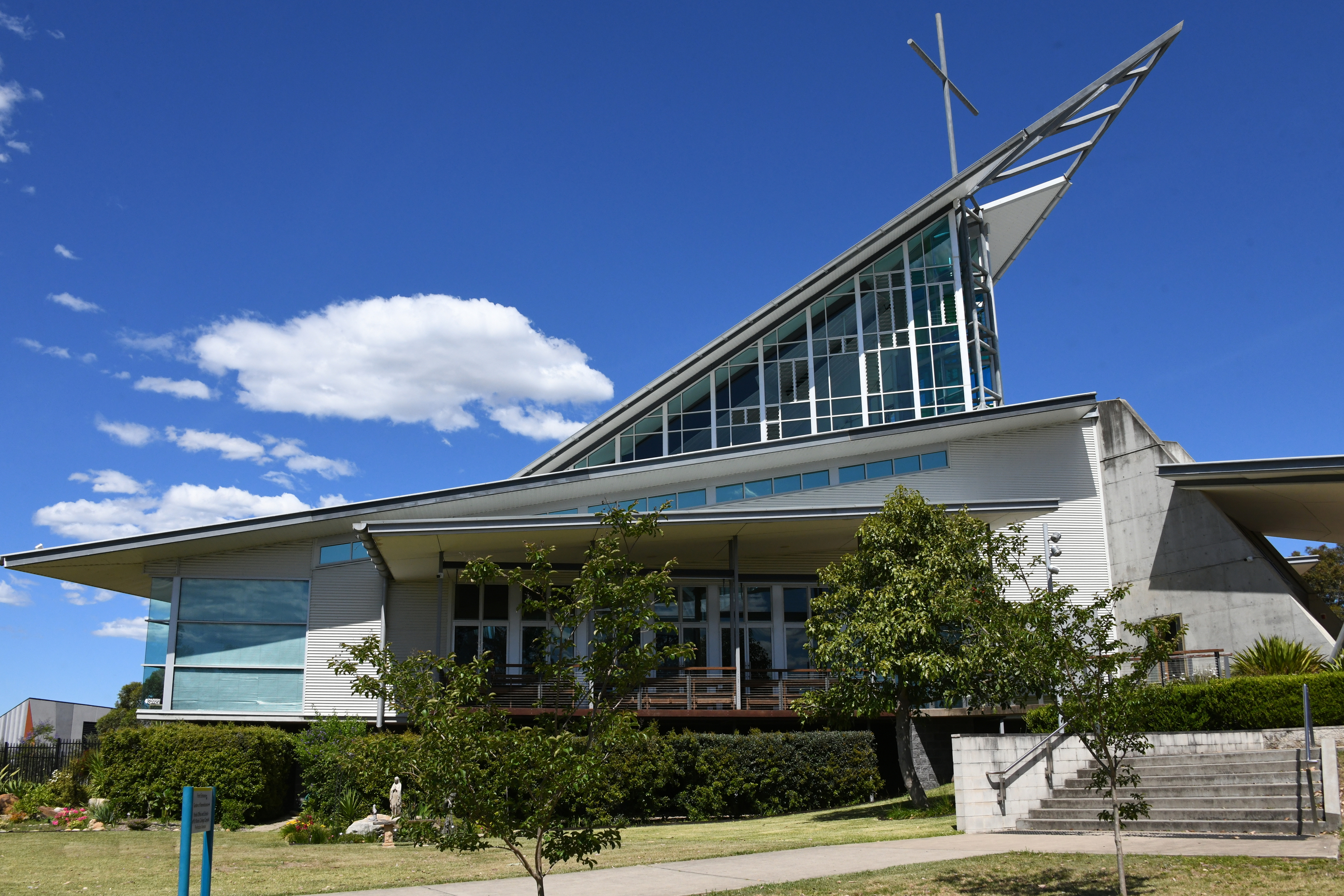 St John XXIII Catholic Church, Stanhope Gardens, Sydney